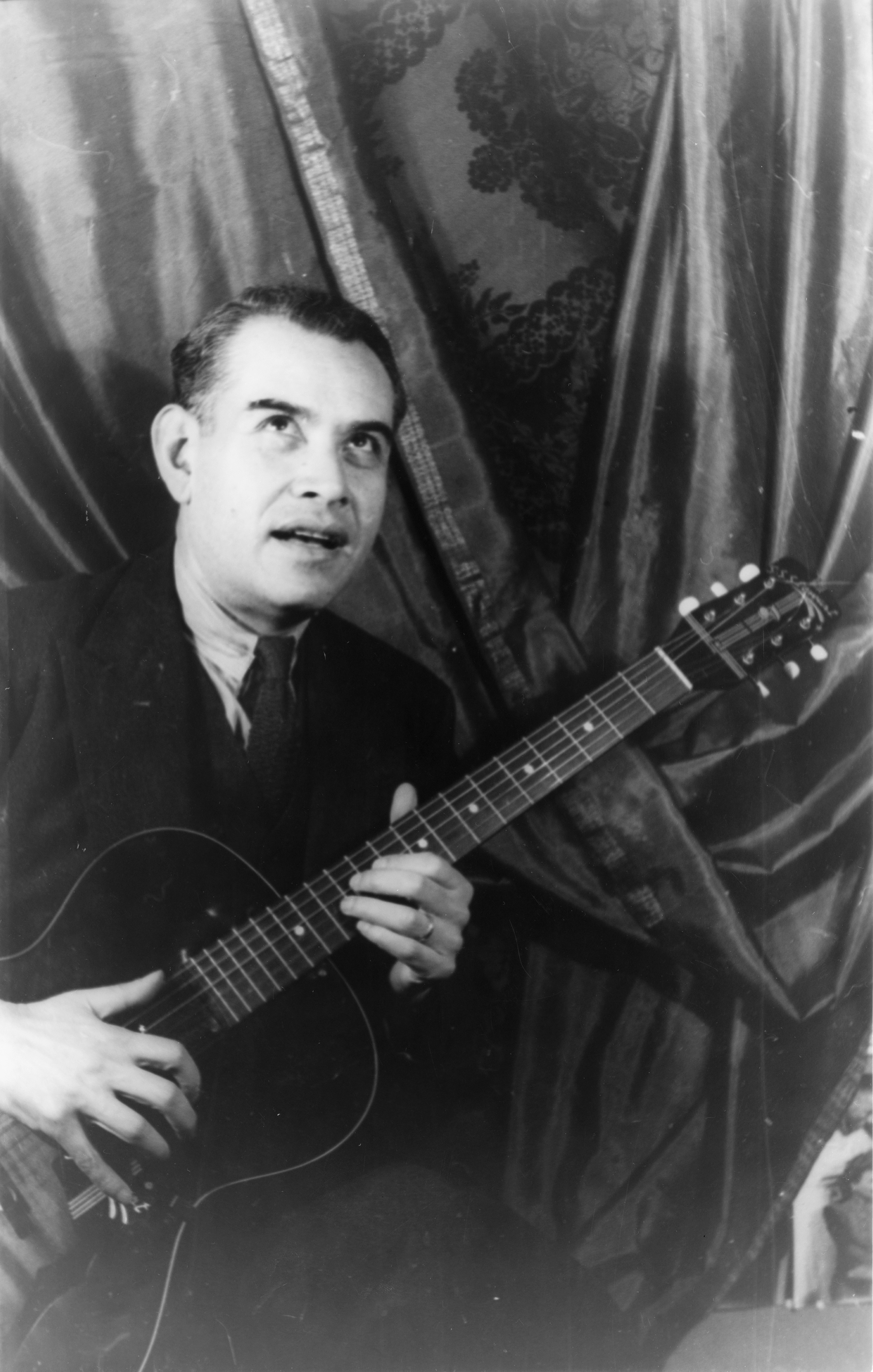 Rufino Tamayo — by photographer Carl Van Vechten. Mexican Modernist artist, in 1945. Credits CREATED/PUBLISHED 1945 Dec. 27.